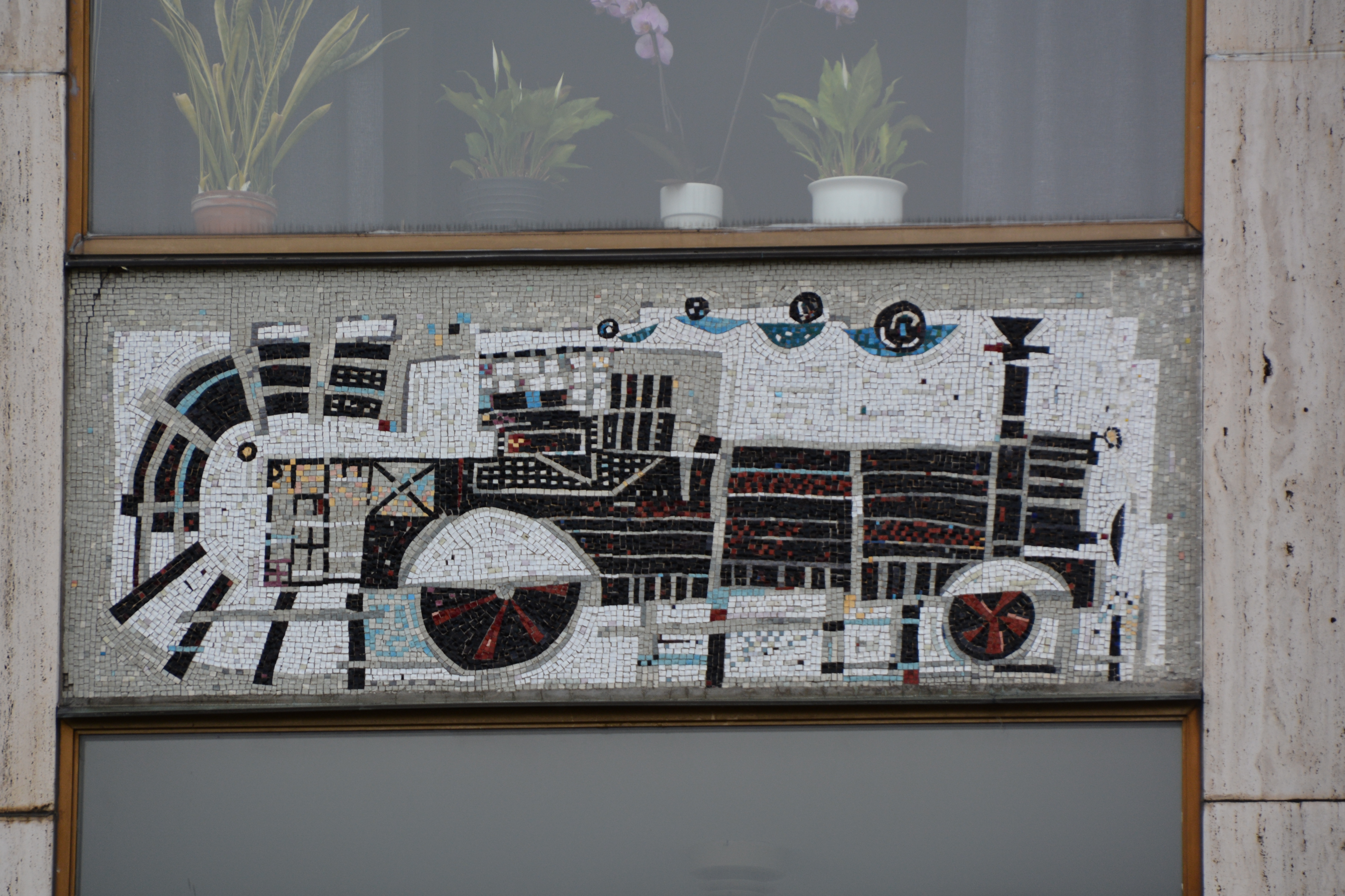 Fasadmosaiker på Norbergs kommunhus, norra gaveln